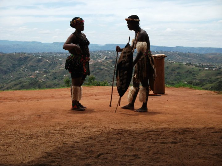 Re-enactment of a traditional Zulu marriage proposal in the Valley of a Thousand Hills, KwaZulu-Natal, South Africa (2010)